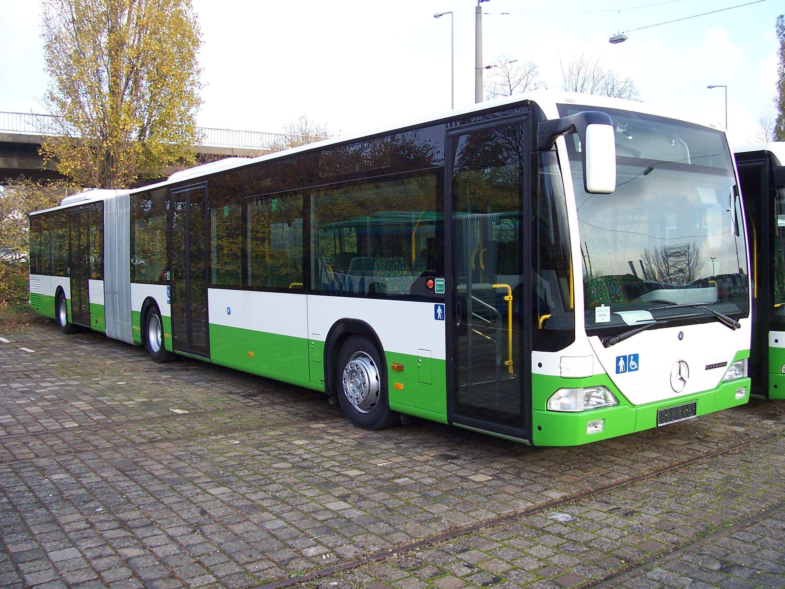 An EvoBus/Mercedes-Benz Citaro at MOT 2005 in Mannheim, Germany My own photo from 19-nov-2005